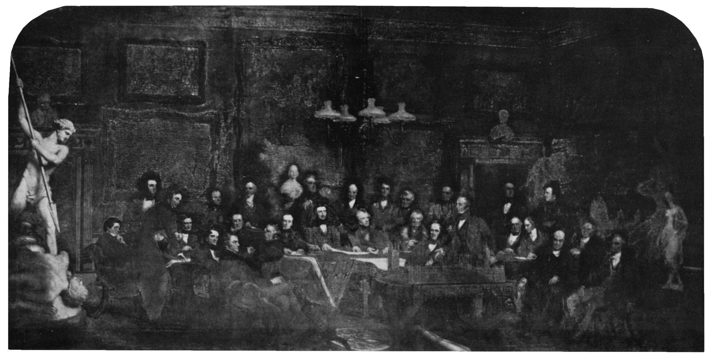 The Fine Arts Commissioners, 1846, by John Partridge (died 1872), given to the National Portrait Gallery, London in 1872. All images in this batch have been confirmed as author died before 1939 according to the official death date listed by the NPG.